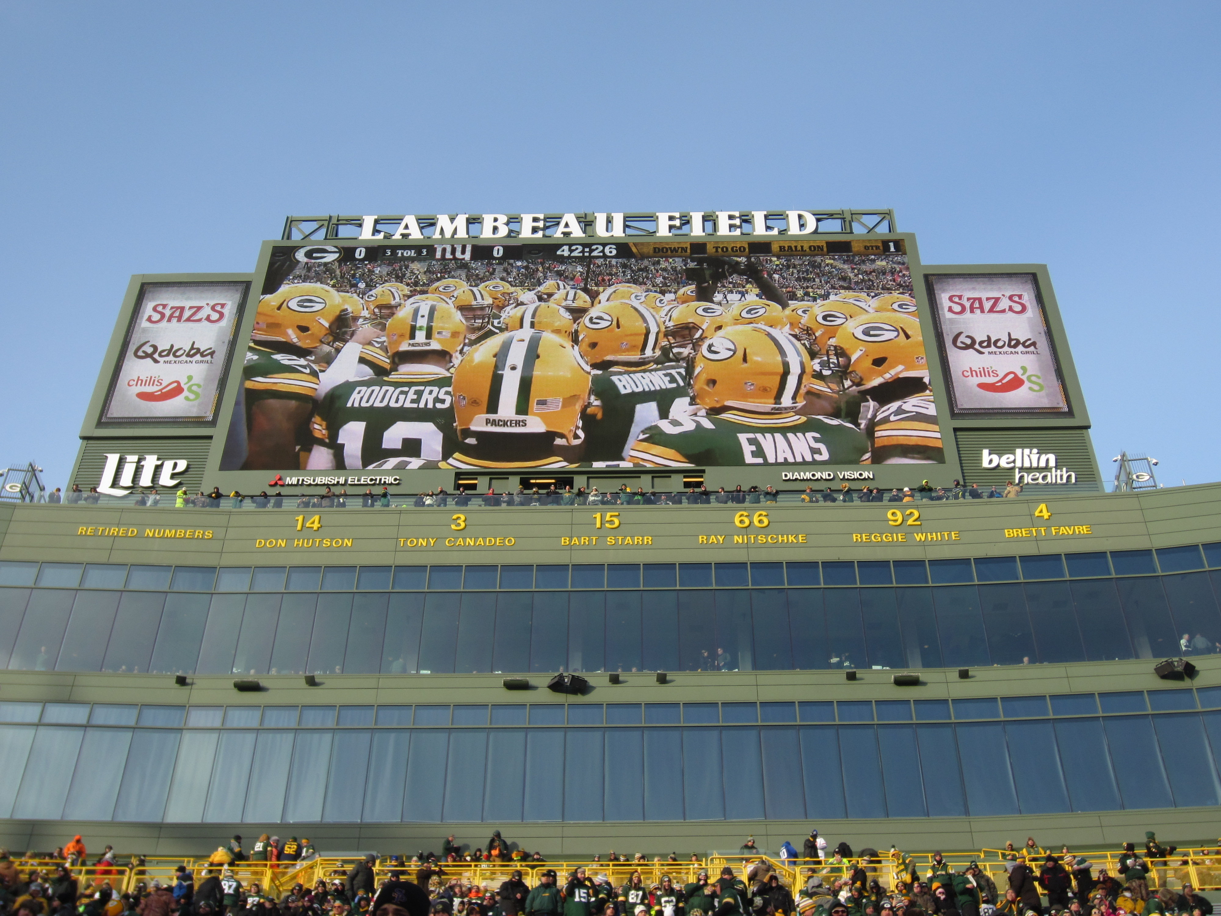 The Green Bay Packers retired numbers above the stands at Lambeau Field.